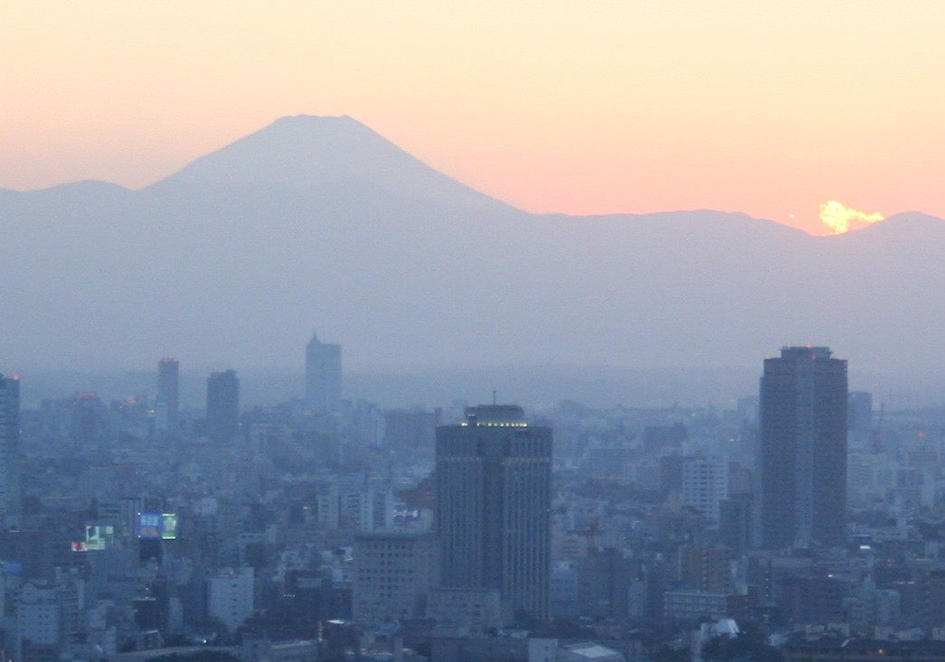 Mount Fuji, as seen from Tokyo Tower at sunset. Picture taken by myself, Eckhard Pecher, on February 12, 2006. Attribution not necessary within the Wikis.